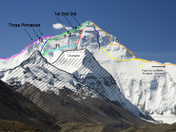 North face of Mt. Everest as seen from the route to base camp, ascent routes marked. Description see below.